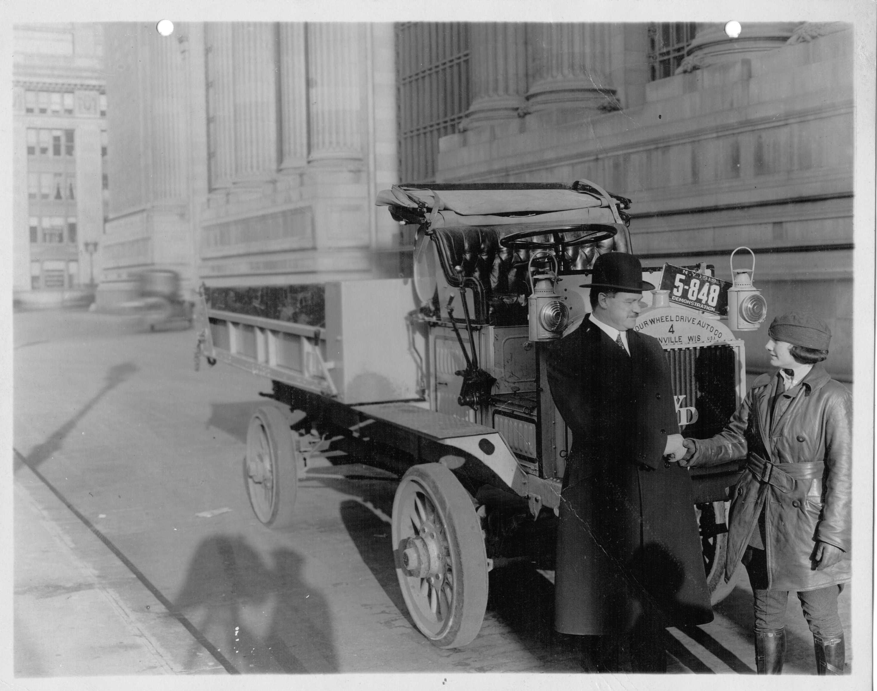 Luella Bates shaking hands with Francis Hugo, Sec. of State of New York in the Bronx, NY, New York Auto show January 8, 1920